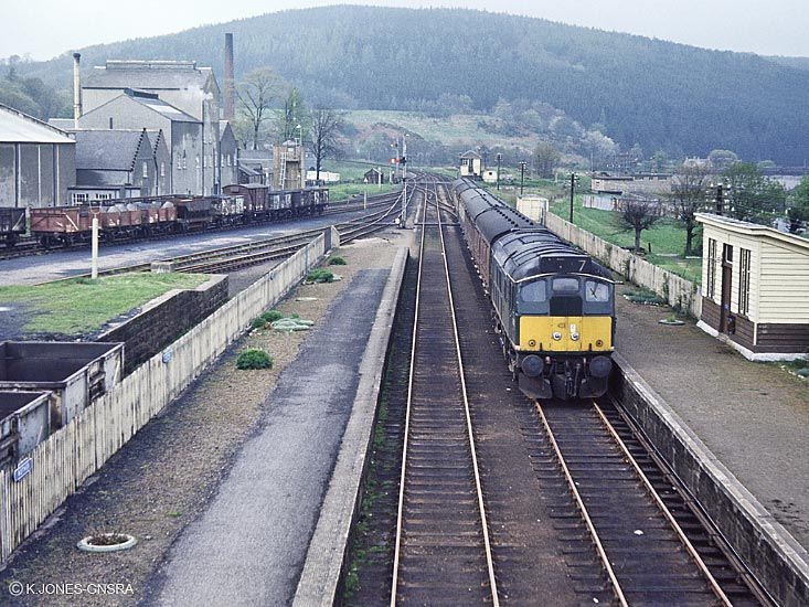 A class 24 arrives at Rothes with a train for Aberdeen in May 1968, note the casks in the distillery sidings, the long closed line from Orton comes in to the right of the signal box.